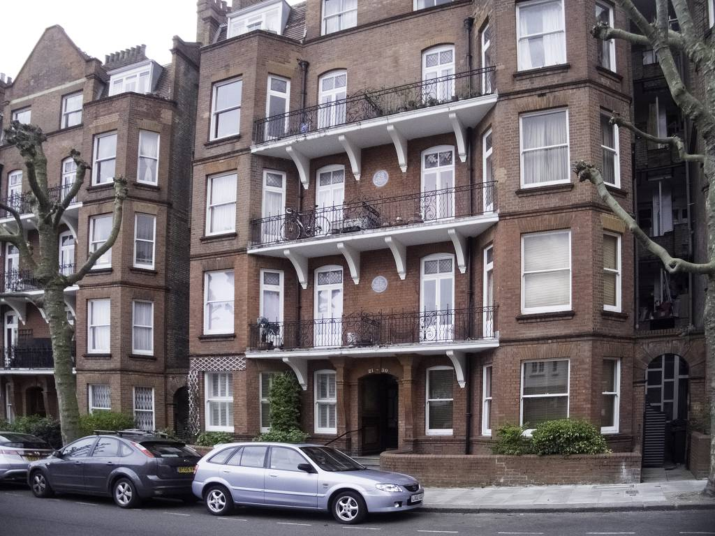 R H Tawney and Haydn Wood plaques, 25 Parliament Hill Mansions, Lissenden Gardens, NW5